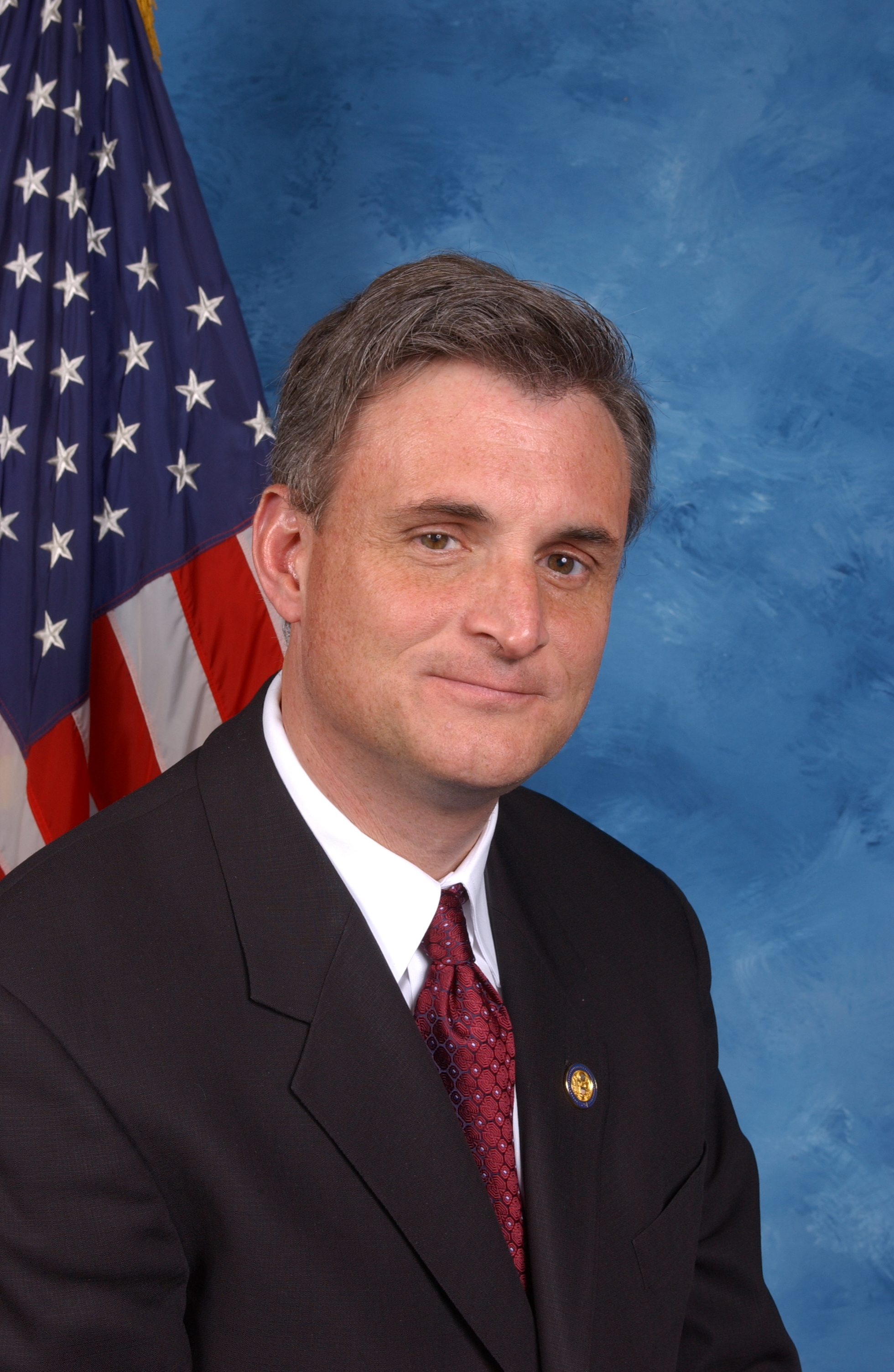 Rob Andrews is a US Democratic congressman from New Jersey. He was first elected to the House of Representatives in 1990. Photograph transmitted by Representative Andrews' assistant.